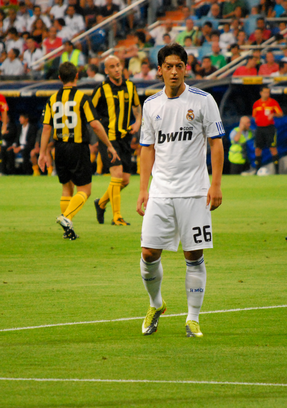 Mesut ozil in Real MADRID JERSEY